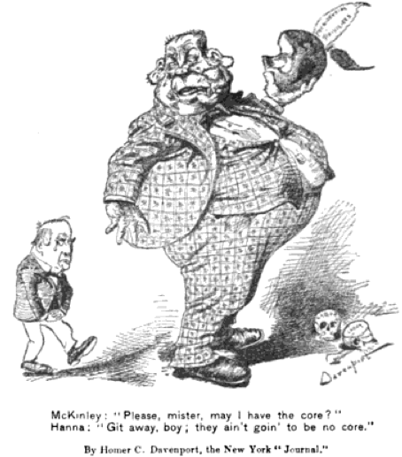 Political cartoon of William McKinley and Mark Hanna by Homer Davenport